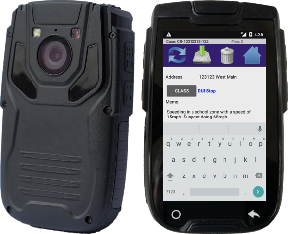 VisioLogix A1 Body worn camera with EMS Mobile to allow Officers to annotate directly on the camera and in the field